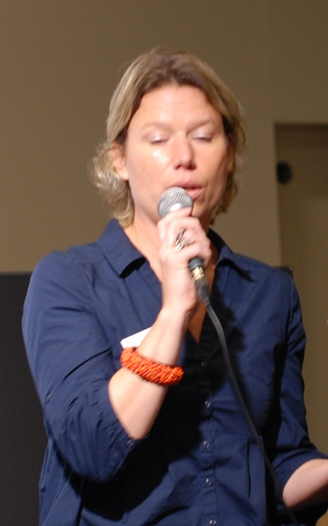 Swedish journalist Anna Koblanck